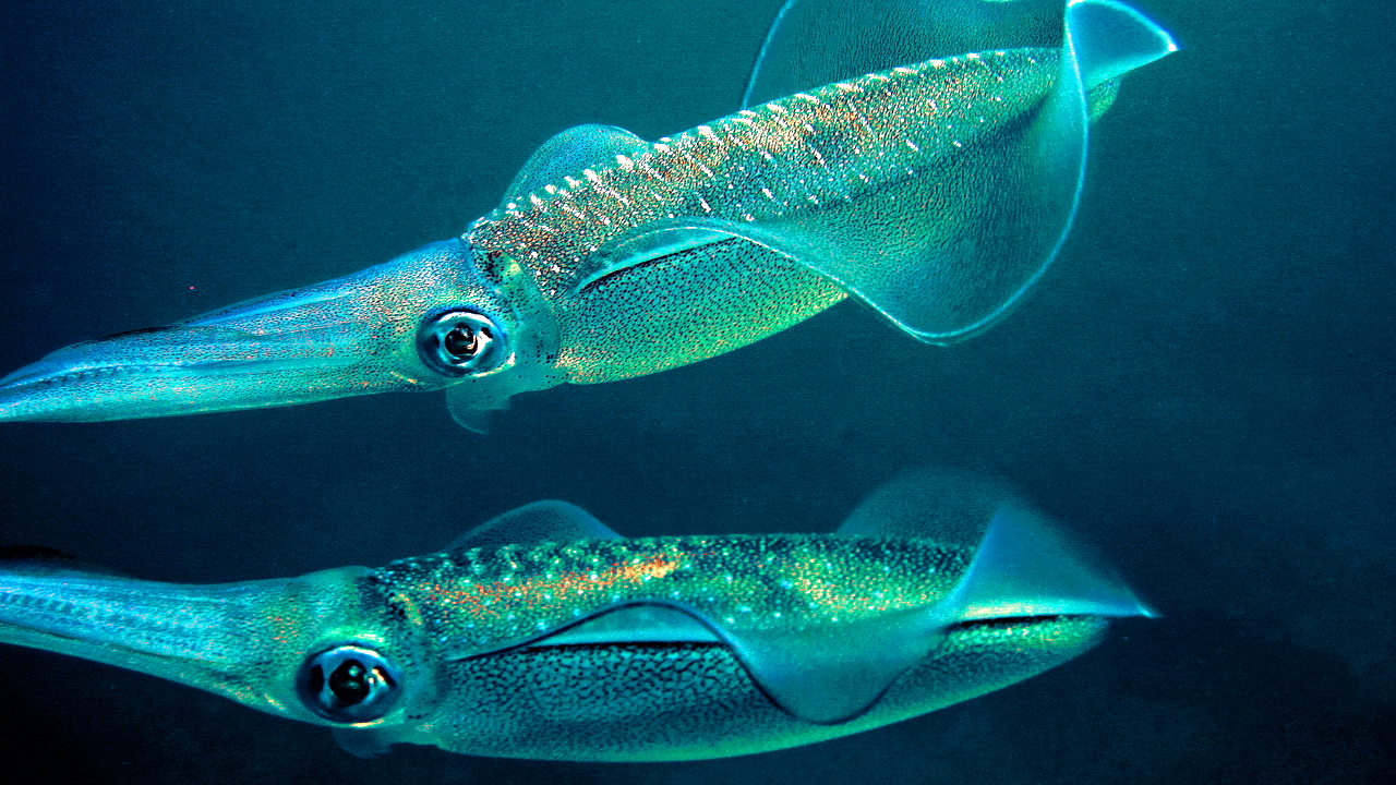 Bigfin reef squid (Sepioteuthis lessoniana）